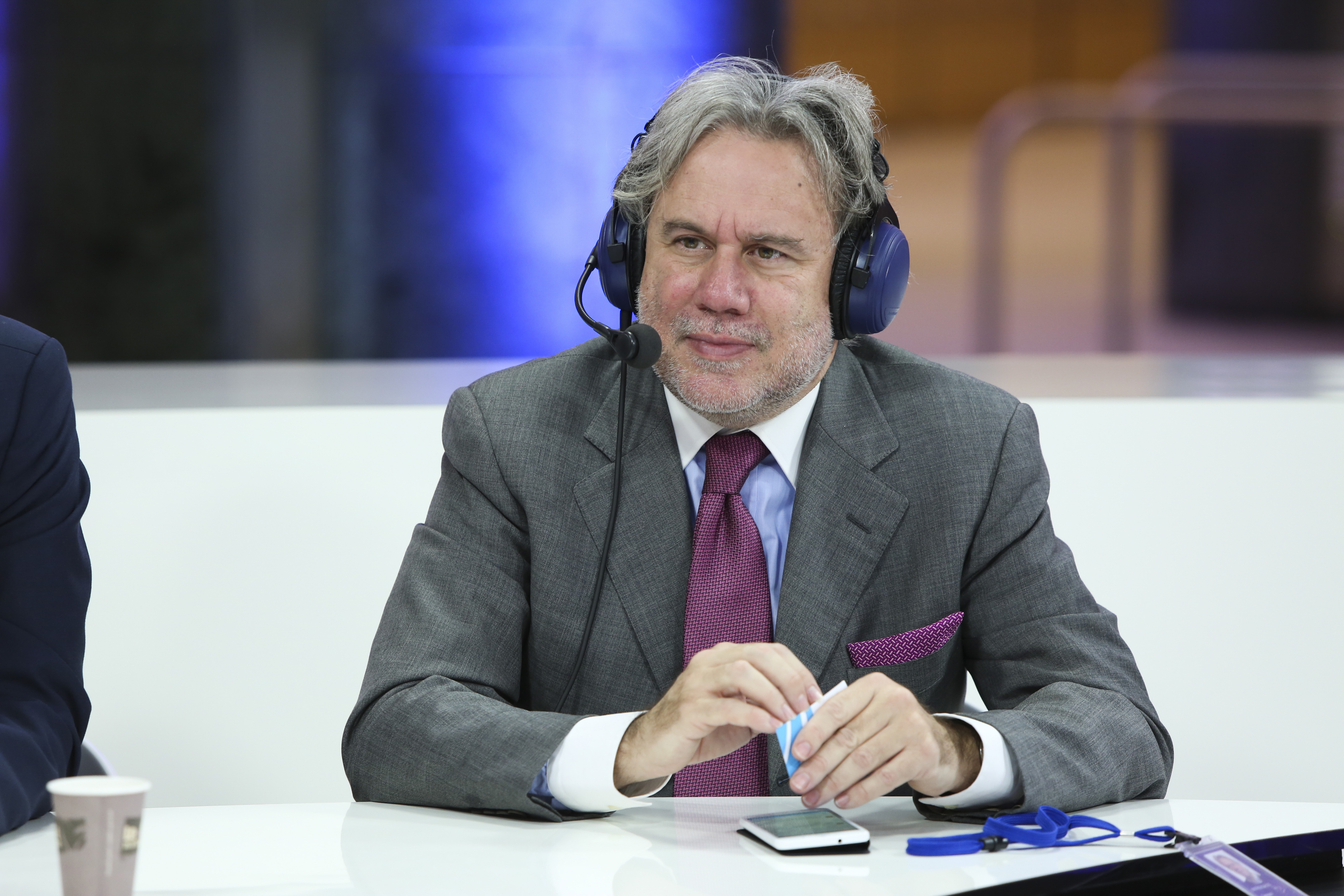 Euranet Plus, the leading radio network for EU news, hosted a Citizens’ Corner live debate on fighting corruption in the EU at the European Parliament in Brussels on December 2, 2014. The debate was jointly produced by Euranet Plus and Skaï Radio, Greece, member of the Euranet Plus network, and was moderated by journalist Stavros Samouilidis from Skaï Radio (in Greek) and Brian Maguire from the Euranet Plus News Agency in Brussels (in English). The debate also featured students from the Euranet Plus campus radio network. The debate was broadcast live at the top of this web page. You are invited to comment on the debate on our Facebook page event page or on Twitter using the hash tag #CitizensCorner. Part 2 | English | 13h15 – 14h00 CET | moderator Brian Maguire | guests: - Kati PIRI, MEP, Netherlands, Group of the Progressive Alliance of Socialists and Democrats - Eva KAILI, MEP, Greece, Group of the Progressive Alliance of Socialists and Democrats - Georgios KATROUGKALOS, MEP, Greece, Confederal Group of the European United Left - Nordic Green Left - Giovanni KESSLER, Director-General of the European Anti-Fraud Office (OLAF) - Carl DOLAN, Director of the Transparency International European Union Liaison Office Get more details, soundbites and the video recording of the debate at